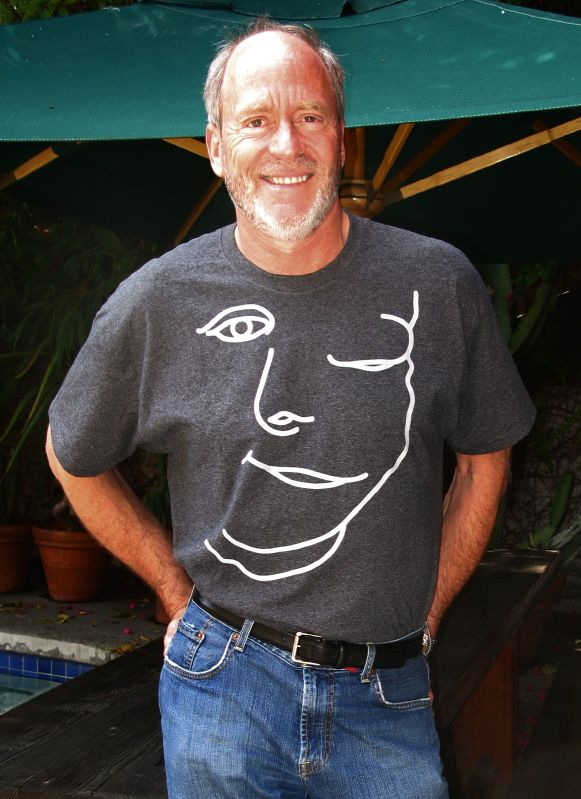 American portrait photographer Greg Gorman, modeling a "Just Ask!" neurofibromatosis shirt.